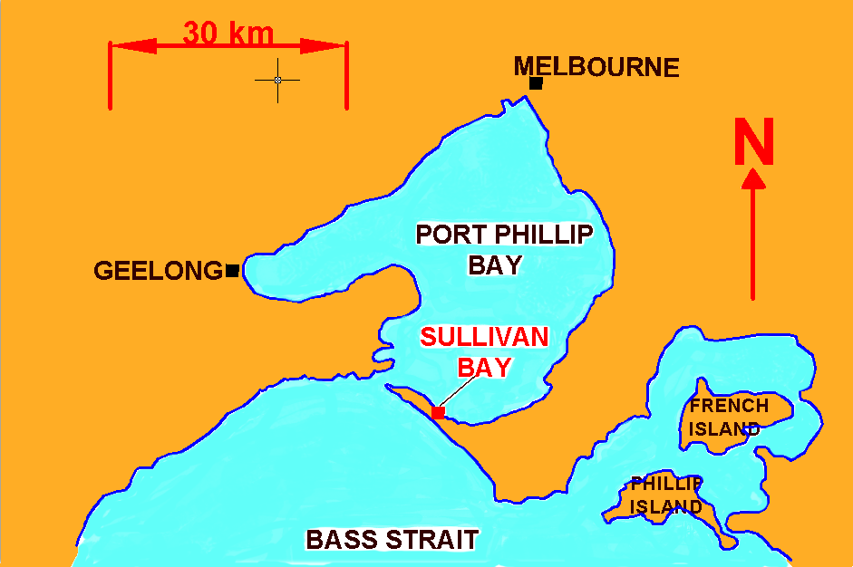 Map of Sullivan Bay,Victoria in relation to Melbourne and Geelong